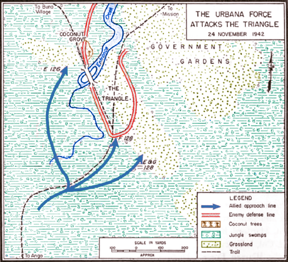 Urbana Force attacks the Triangle, 24 Nov 42.